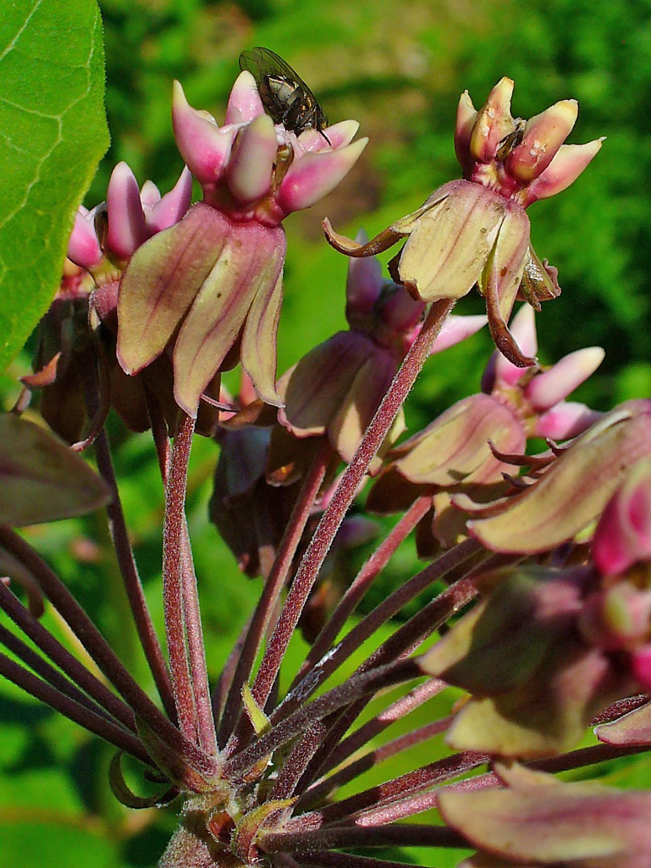 Asclepias syriaca, Apocyanaceae, Common Milkweed, Butterfly flower, Silkweed, Silky Swallow-wort, Virginia Silkweed, flowers. The roots are used in homeopathy as remedy: Asclepias syriaca (Asc-s.)